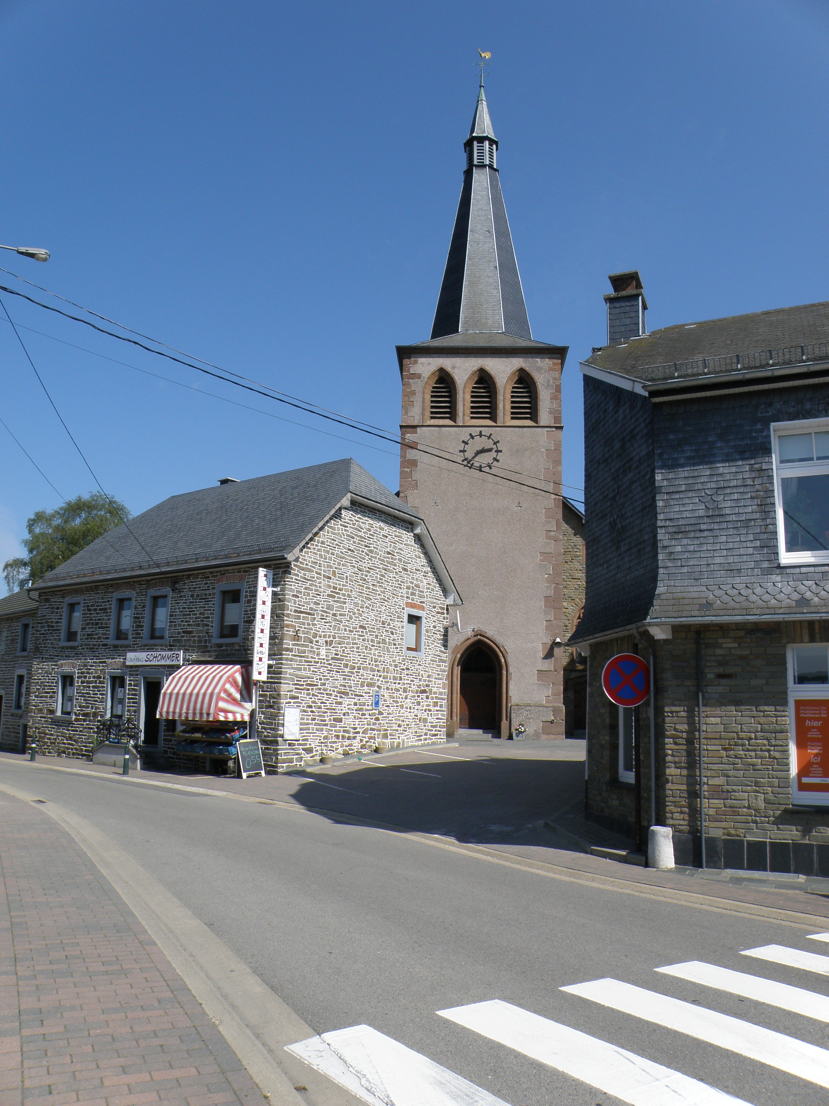 Church in Amel